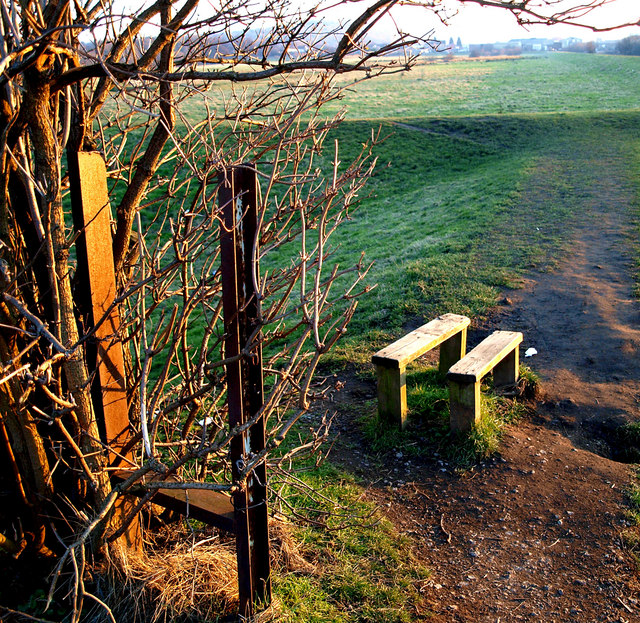 Missing fence The stile is all that is left.